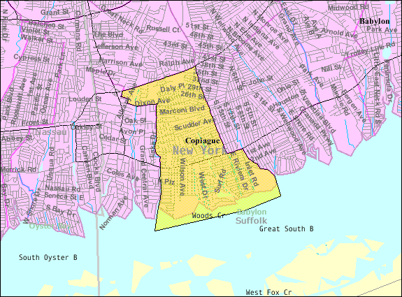 U.S. Census 2000 reference map for Copiague